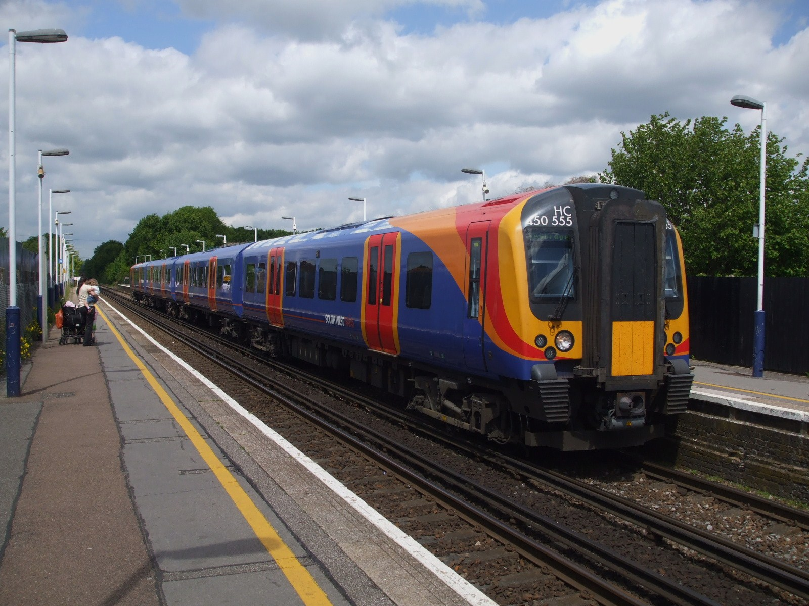 Class 450 unit 450555 calls at Addlestone station with a Weybridge service